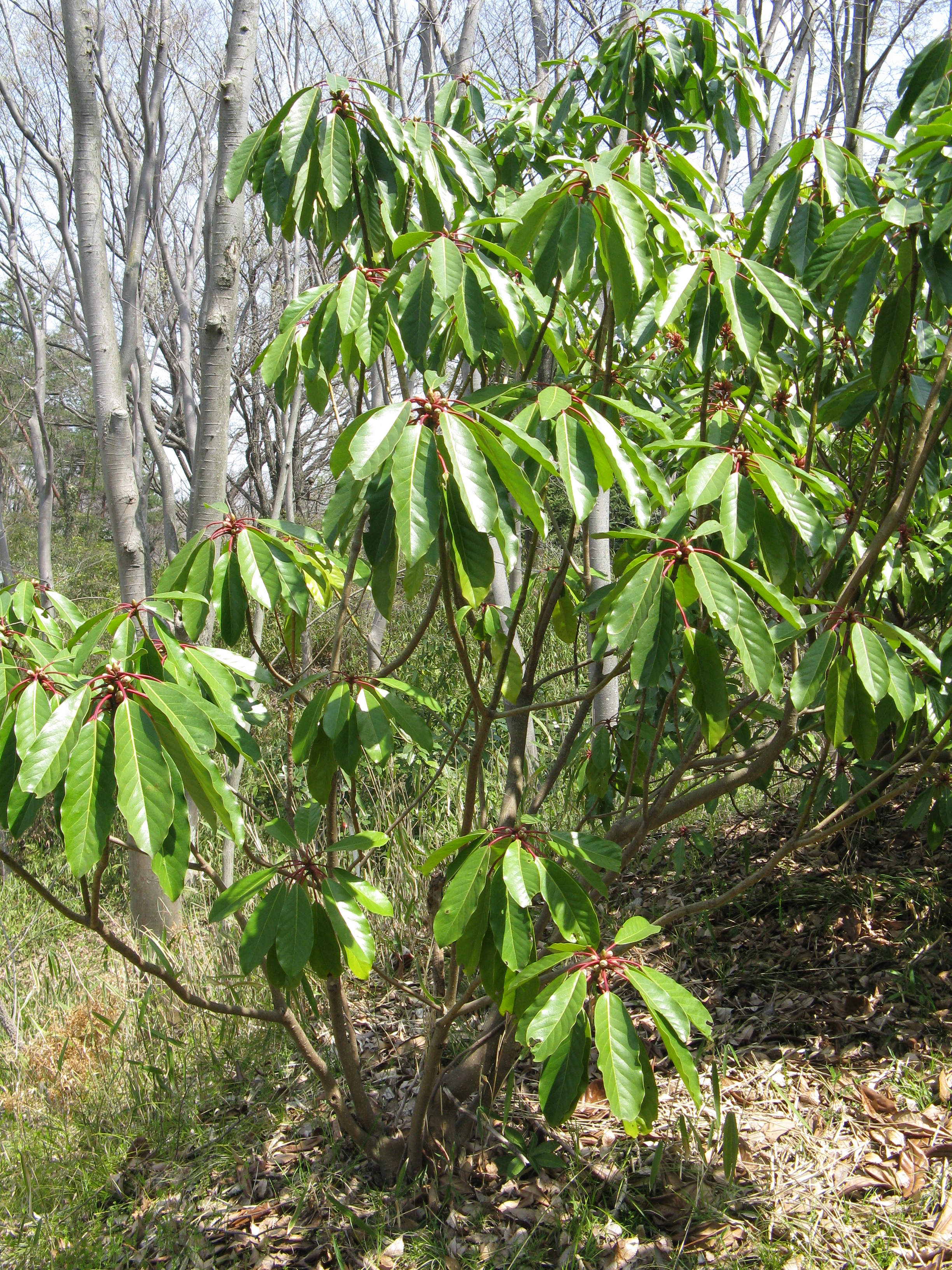 Daphniphyllum macropodum subsp. humile